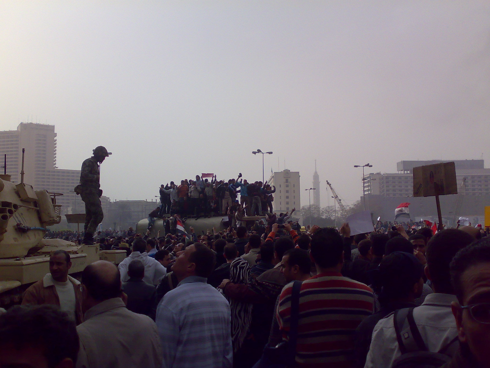 29 January 2011 Photographed by: Ramy Raoof